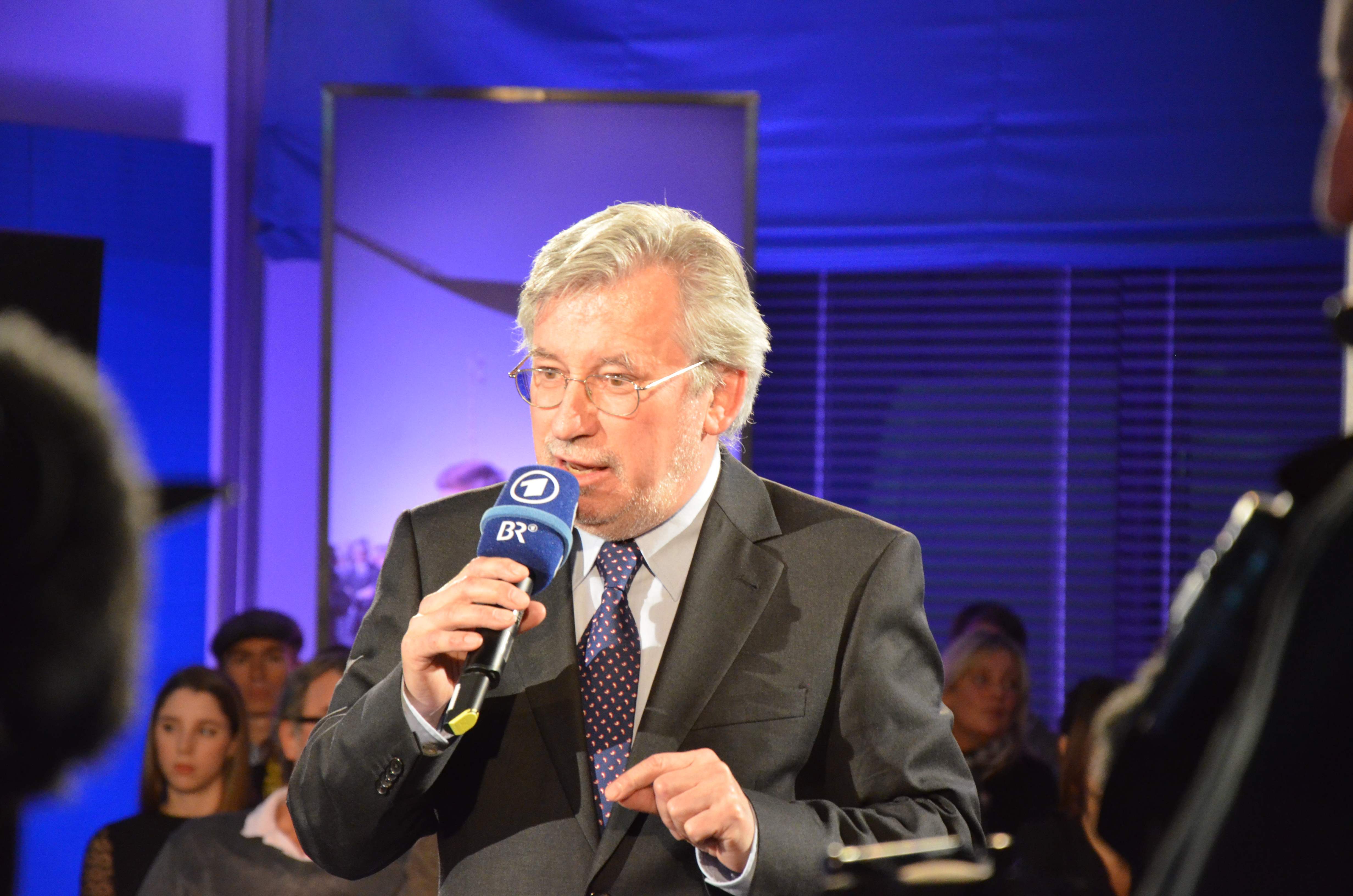 Johannes Grotzky, director of Bayerischer Rundfunk's radio branch gave an introduction